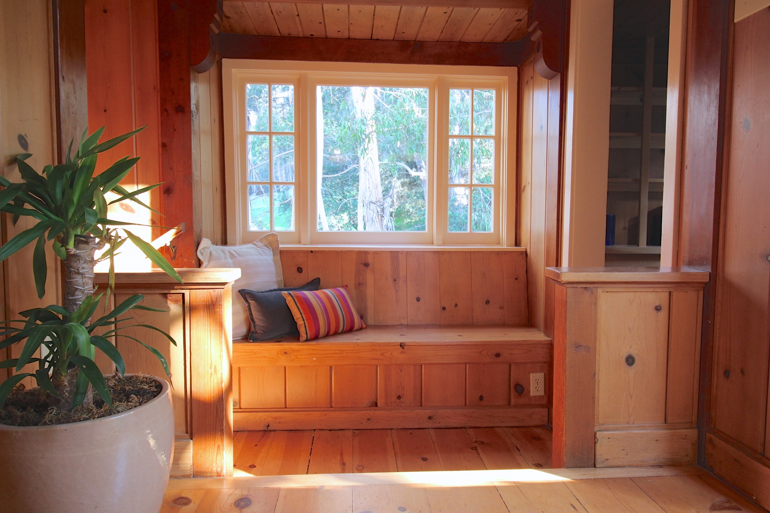 View of entry hall at the Sala House.